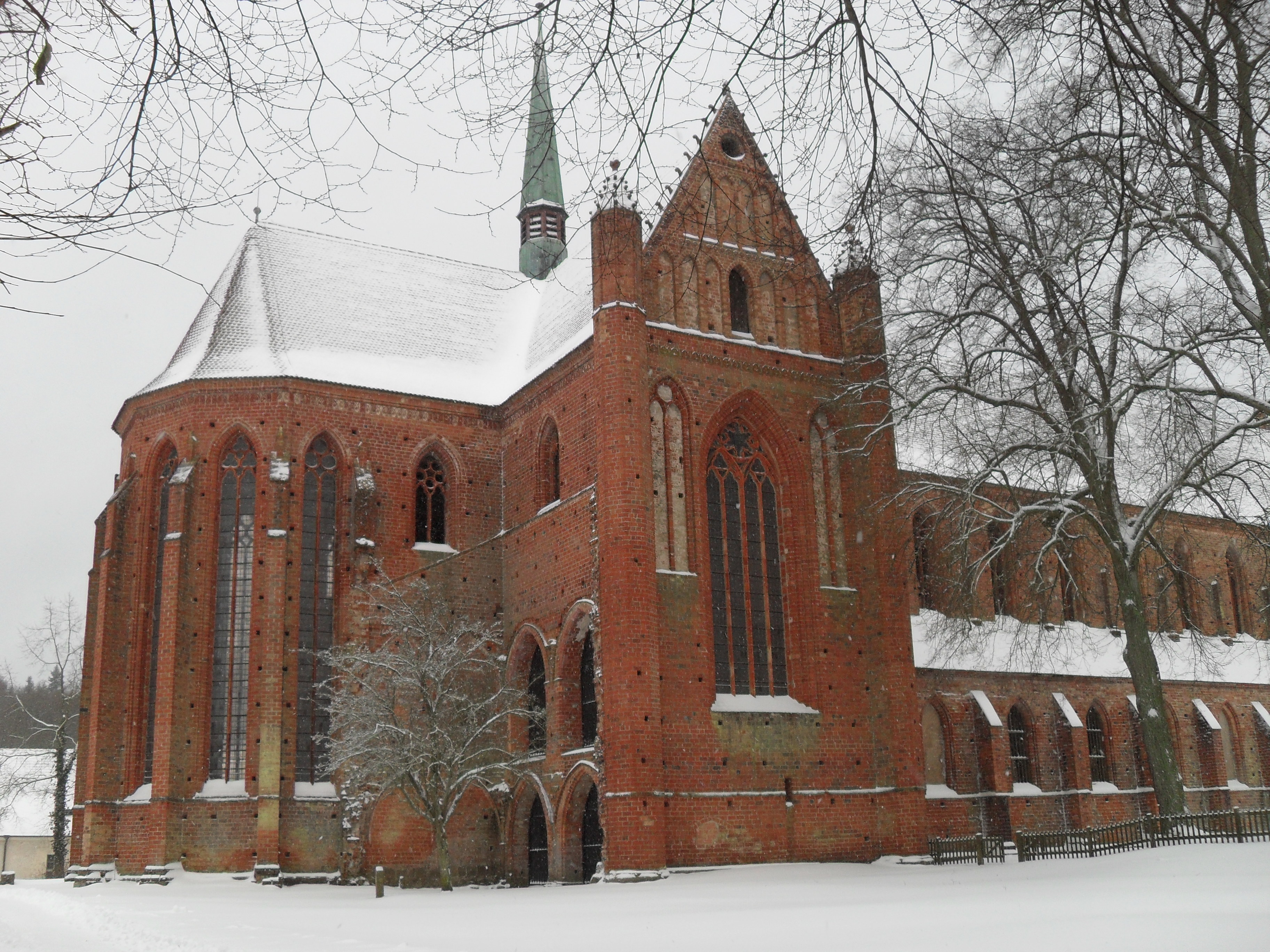 Church of Chorin Abbey, Barnim district, Brandenburg state, Germany